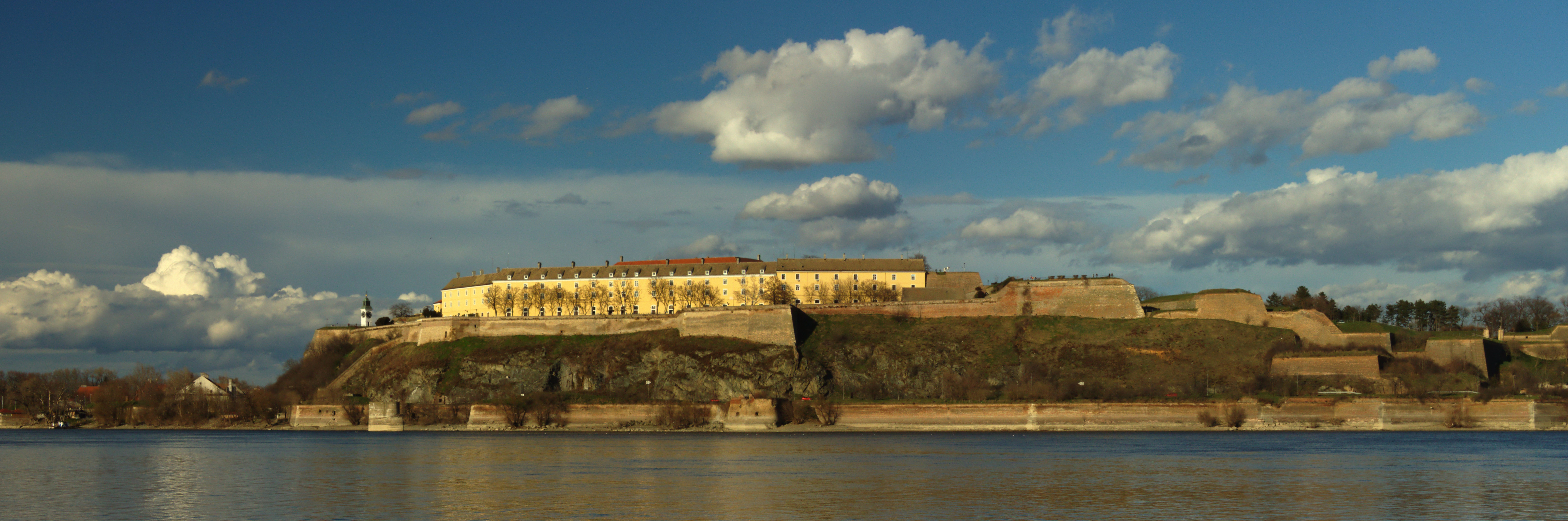 Petrovaradin fortress during a early summer day from the Danube riverbank, Novi Sad, Serbia